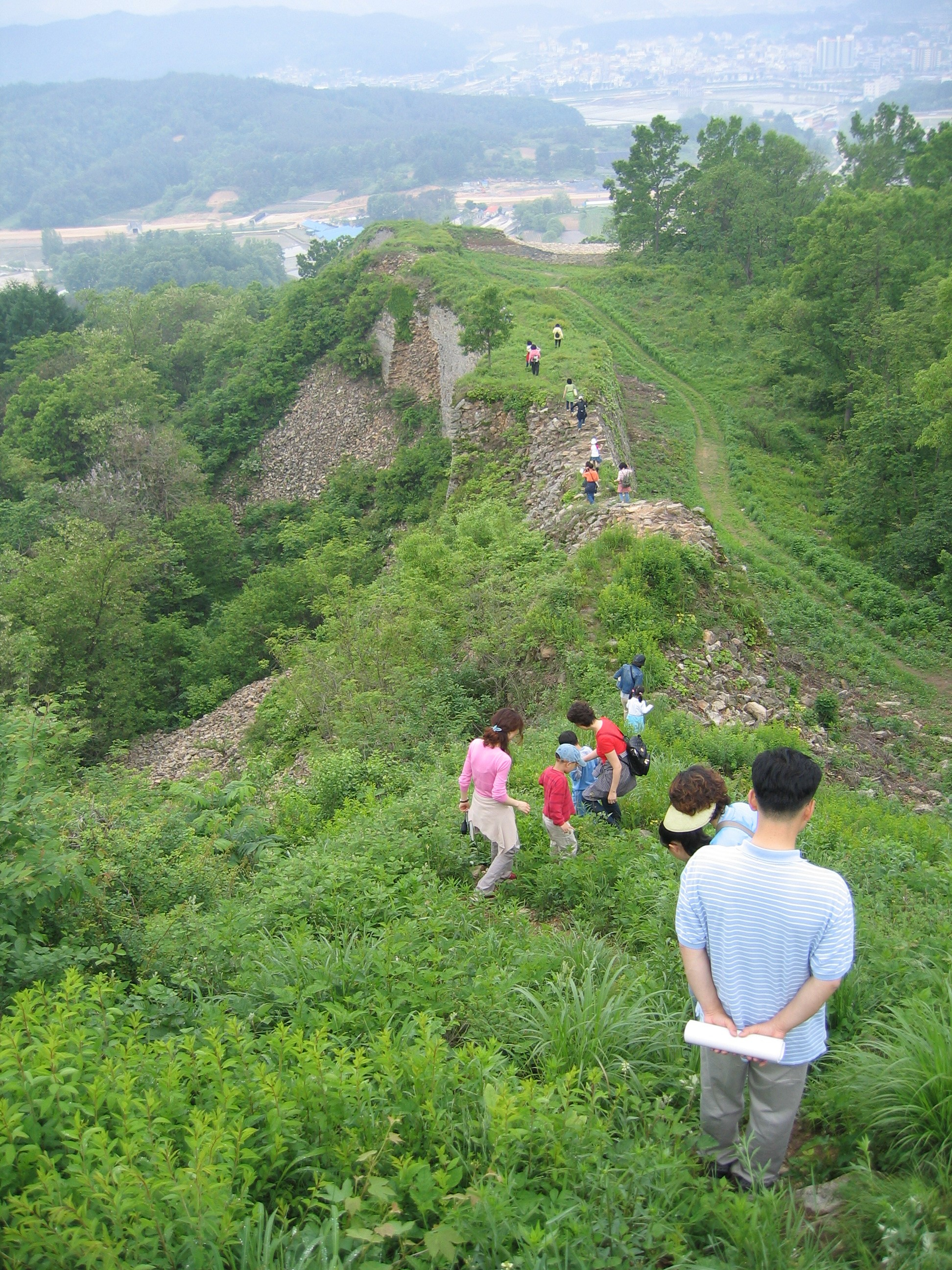 Samnyeon sanseong wall remnants.